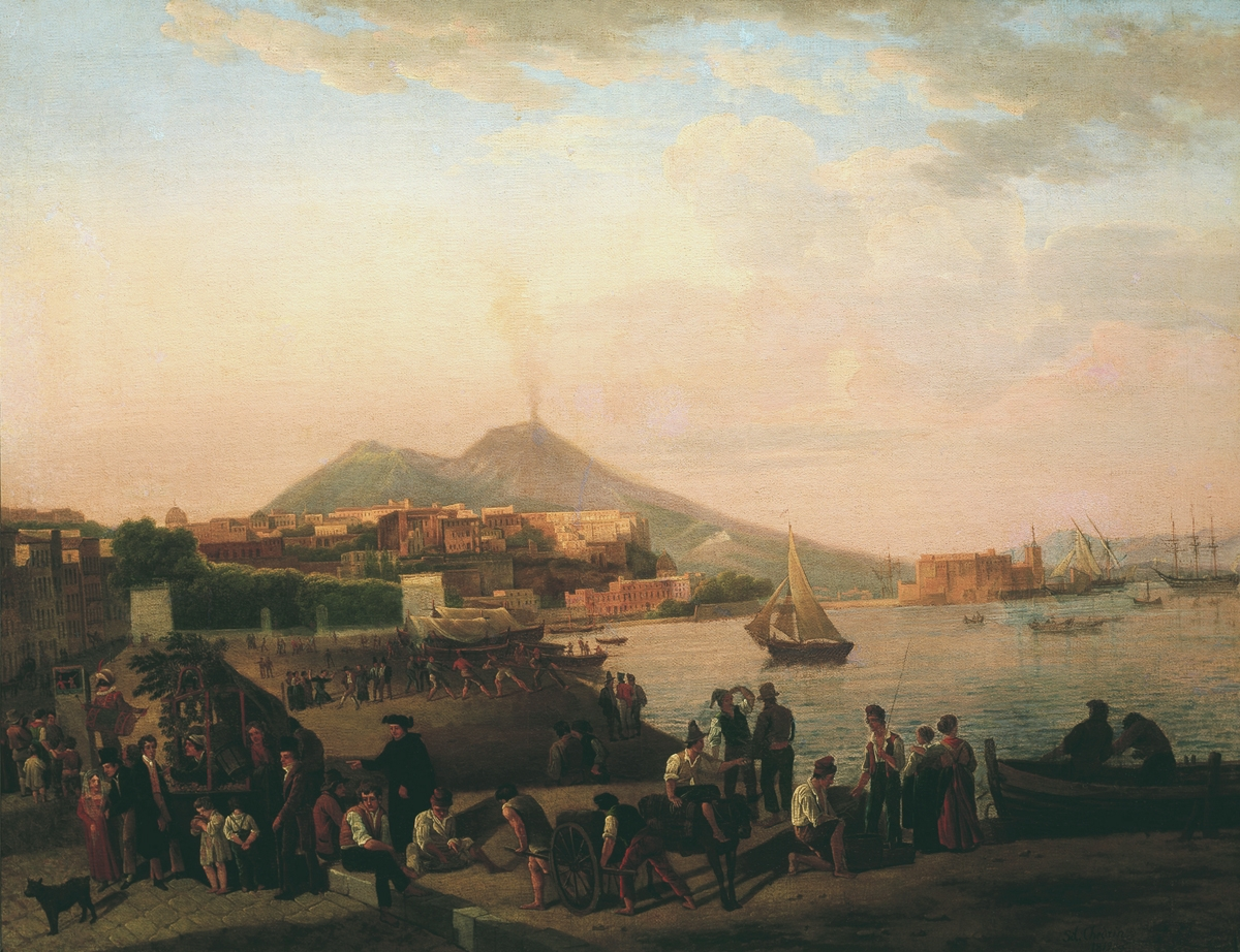 Naples, 1819.